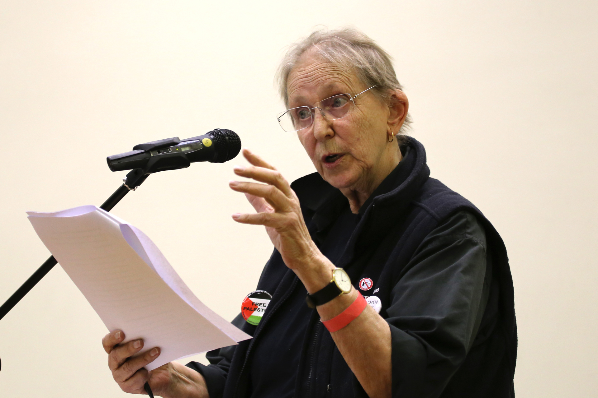 The strength of Critique: Trajectories of Marxism – Feminism Internationaler Kongress Berlin